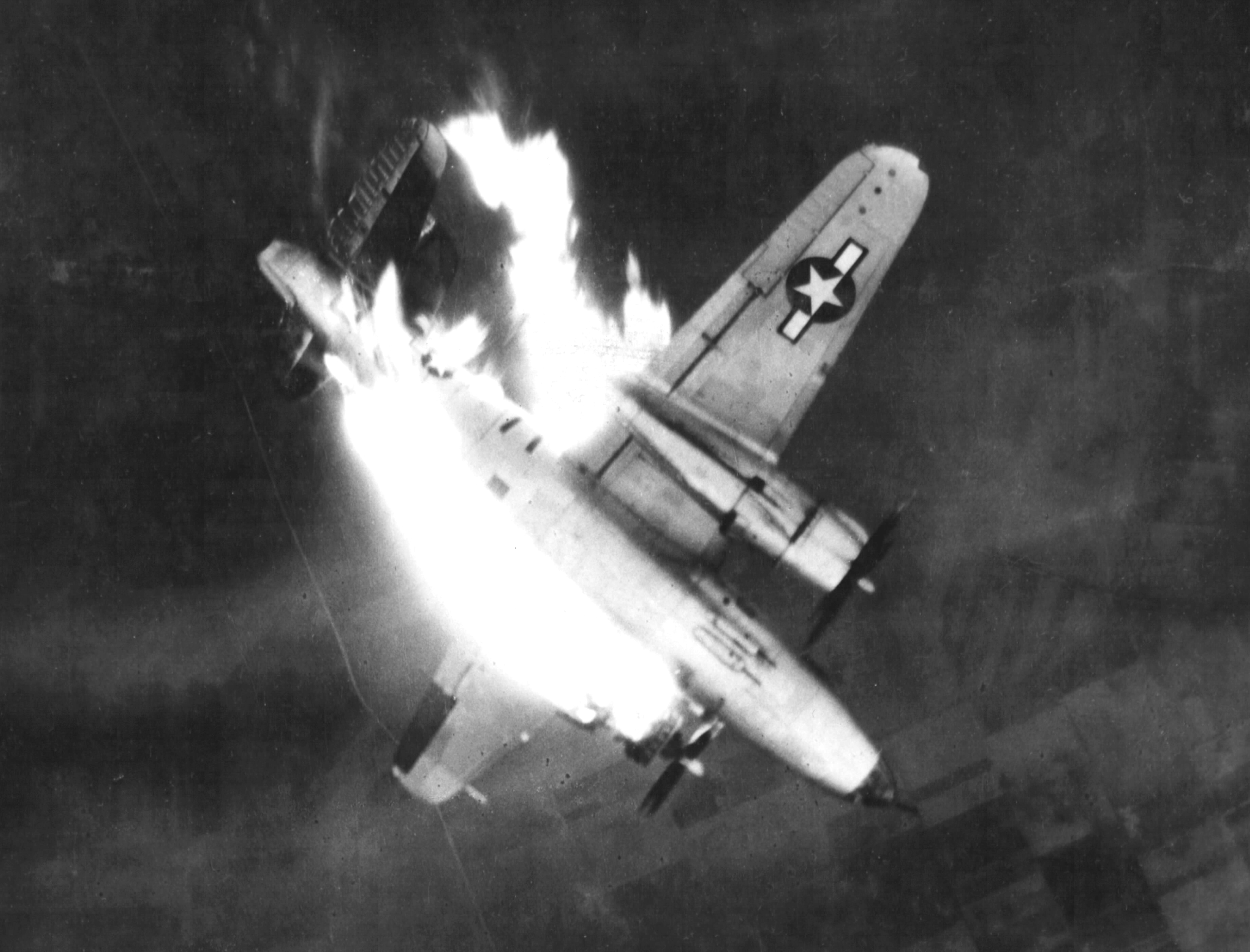 A U.S. Army Air Forces Martin B-26G-11-MA Marauder (s/n 43-34565) from the 497th Bombardment Squadron, 344th Bombardment Group, 9th Air Force, enveloped in flames and hurtling earthward after enemy flak scored a direct hit on left engine while aircraft was attacking front line enemy communications center at Erkelenz, Germany. (MACR 12649)